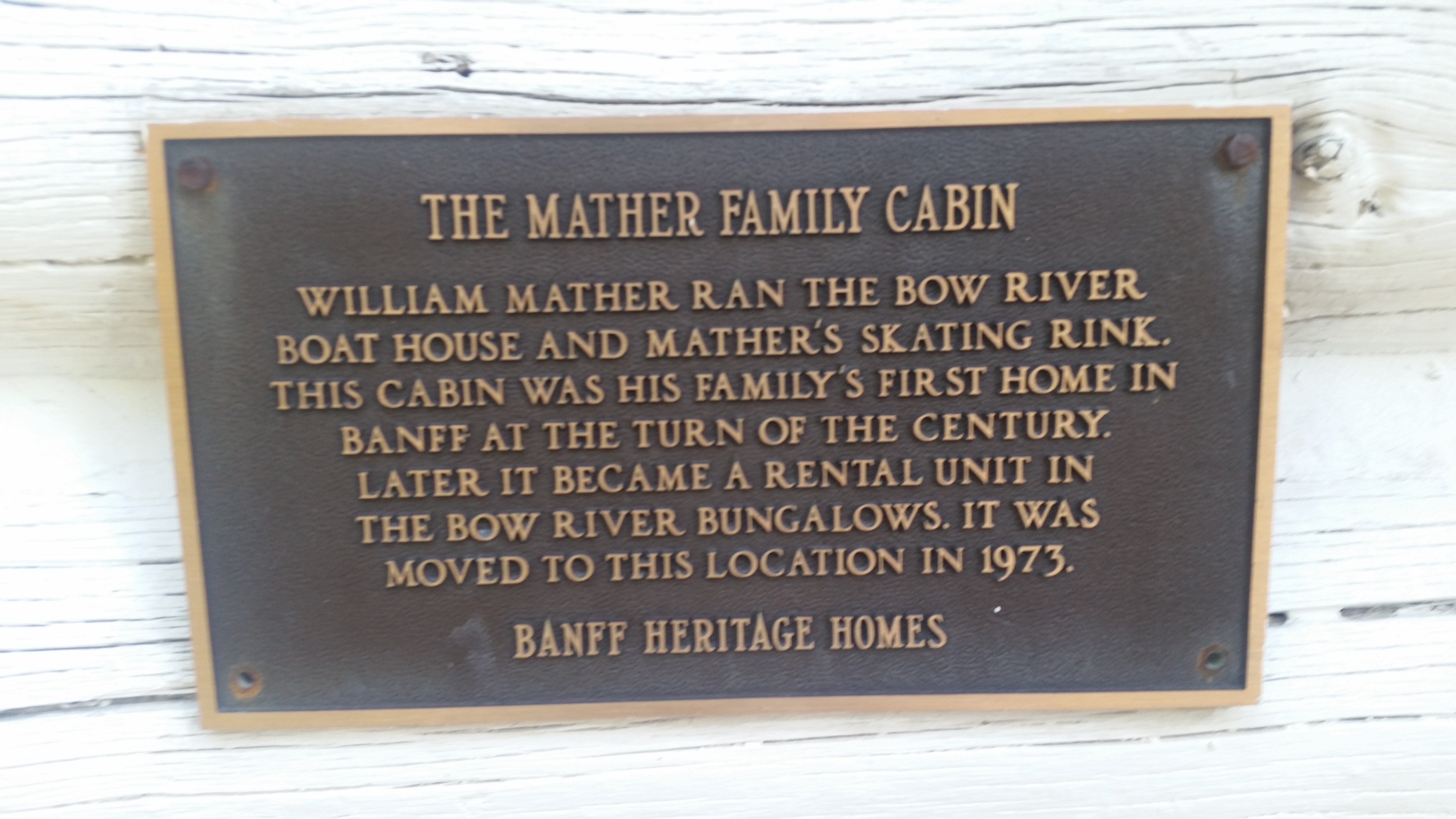 Label on the Mather Family Cabin located on the Whyte Museum property.